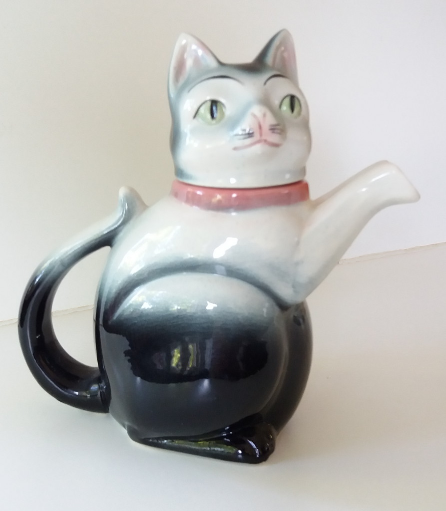 Ceramic coffee pot in the form of a cat (Germany, 1920s)